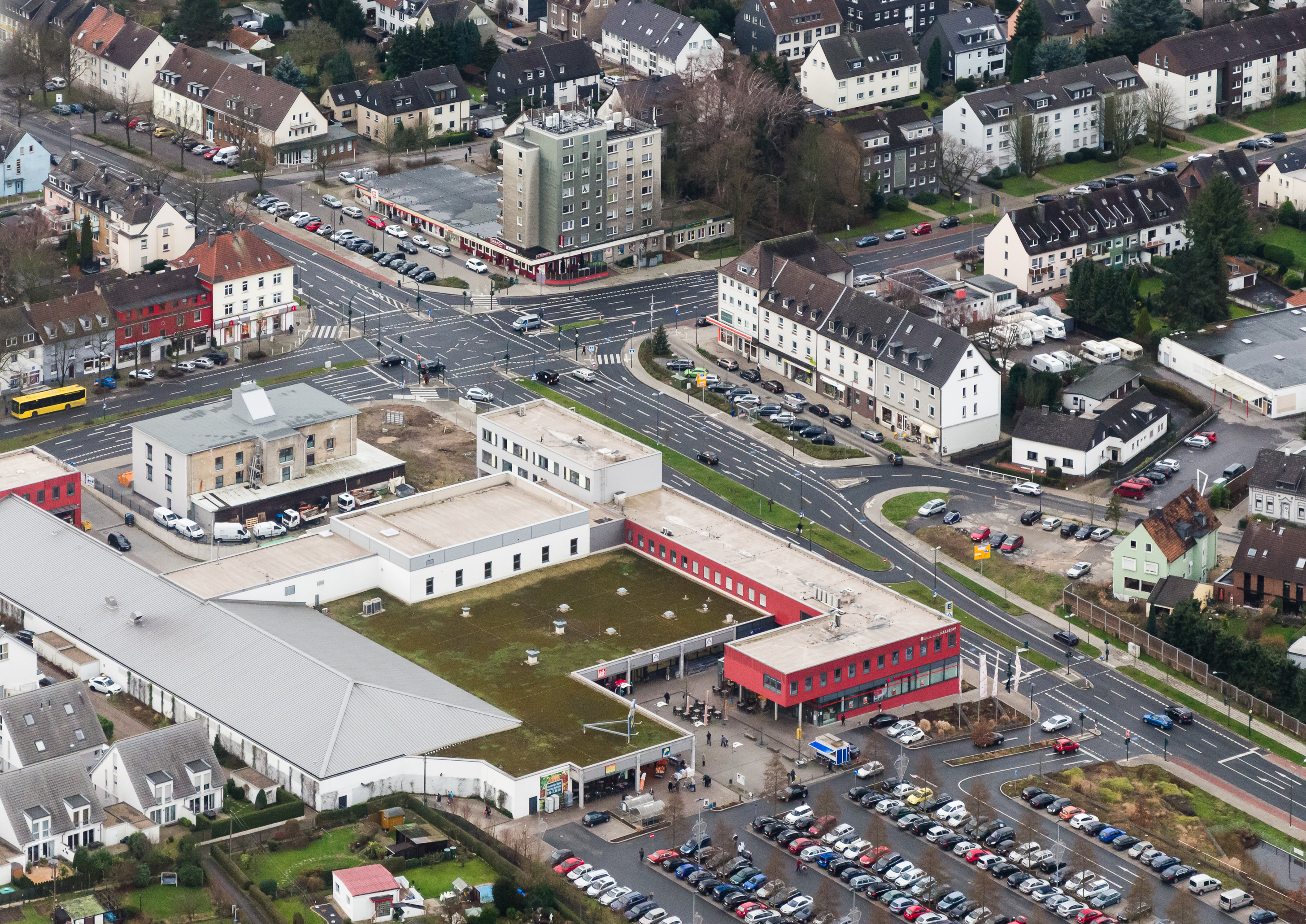 Aerial photo of new center of Essen Haarzopf with large shopping complex, heading SW